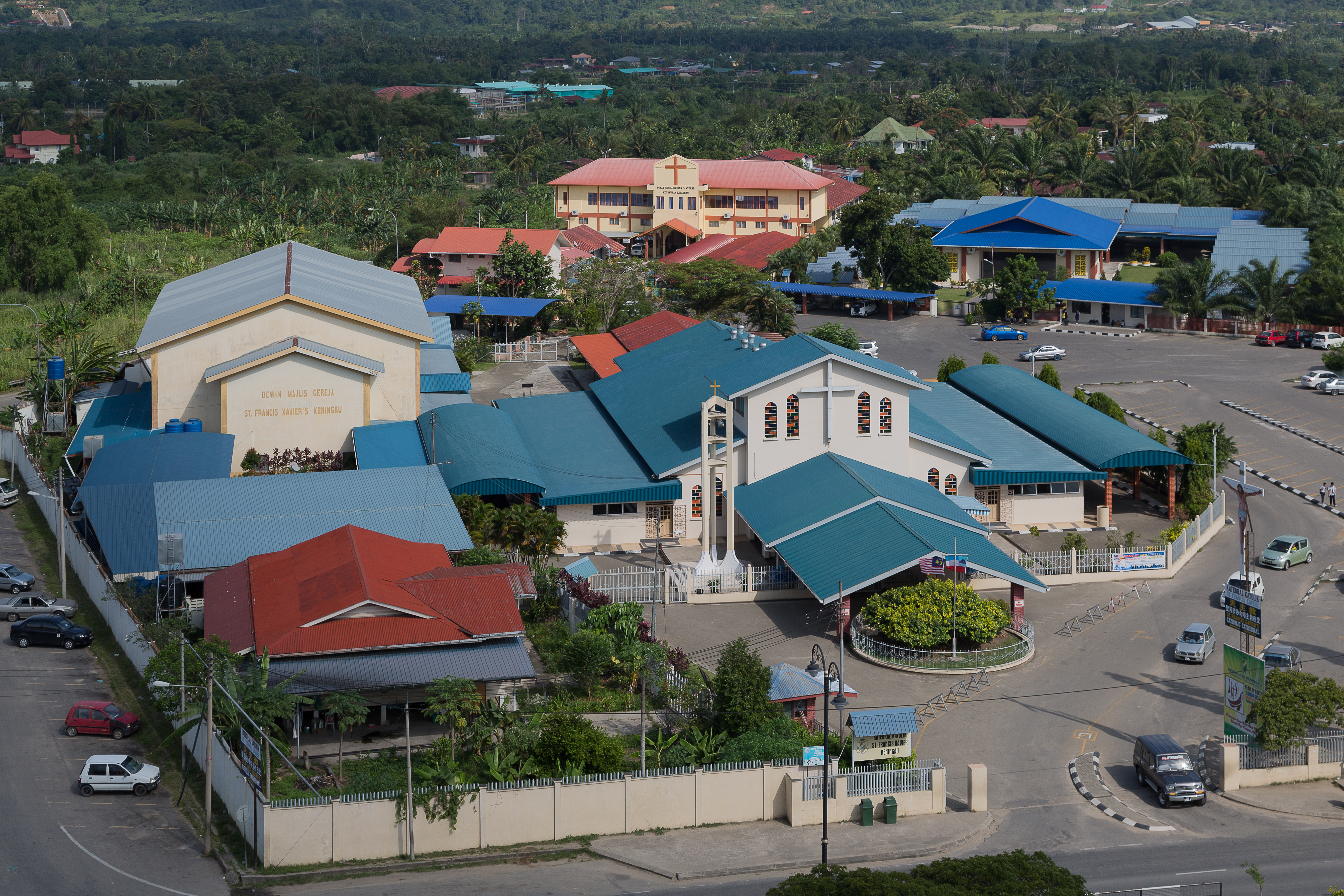 Keningau, Sabah: The cathedral precinct of the Roman Catholic Diocese of Keningau